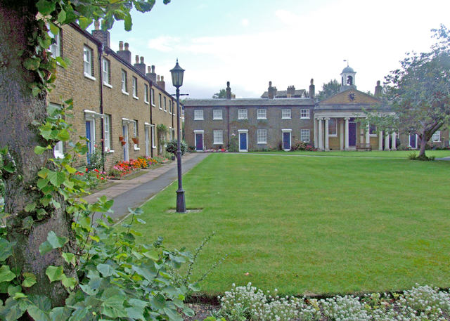 Queen Elizabeth's College and Lambard House Established By Letters Patent of November 1574. Queen Elizabeth I granted that there should be a college or hospital of poor persons at East Greenwich to be called Collegium Pauperum Reginae Elizabeth. The Draper's Company are the current trustees of the charity.